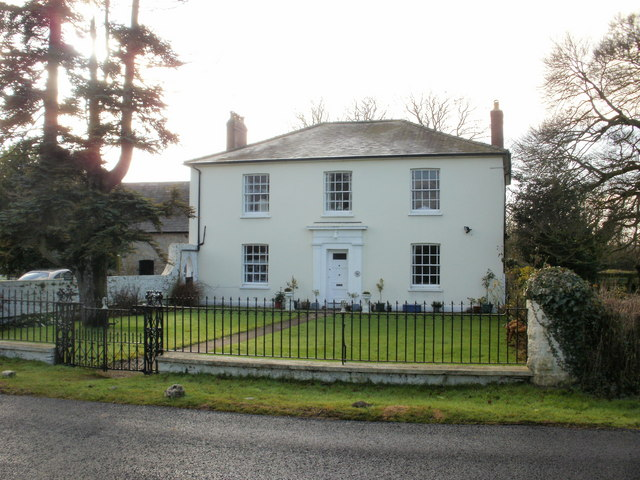 Fair Orchard, Nash. Grade II listed building, Nash Road. Also listed (separately) are the adjacent barn and attached agricultural buildings. 1778117